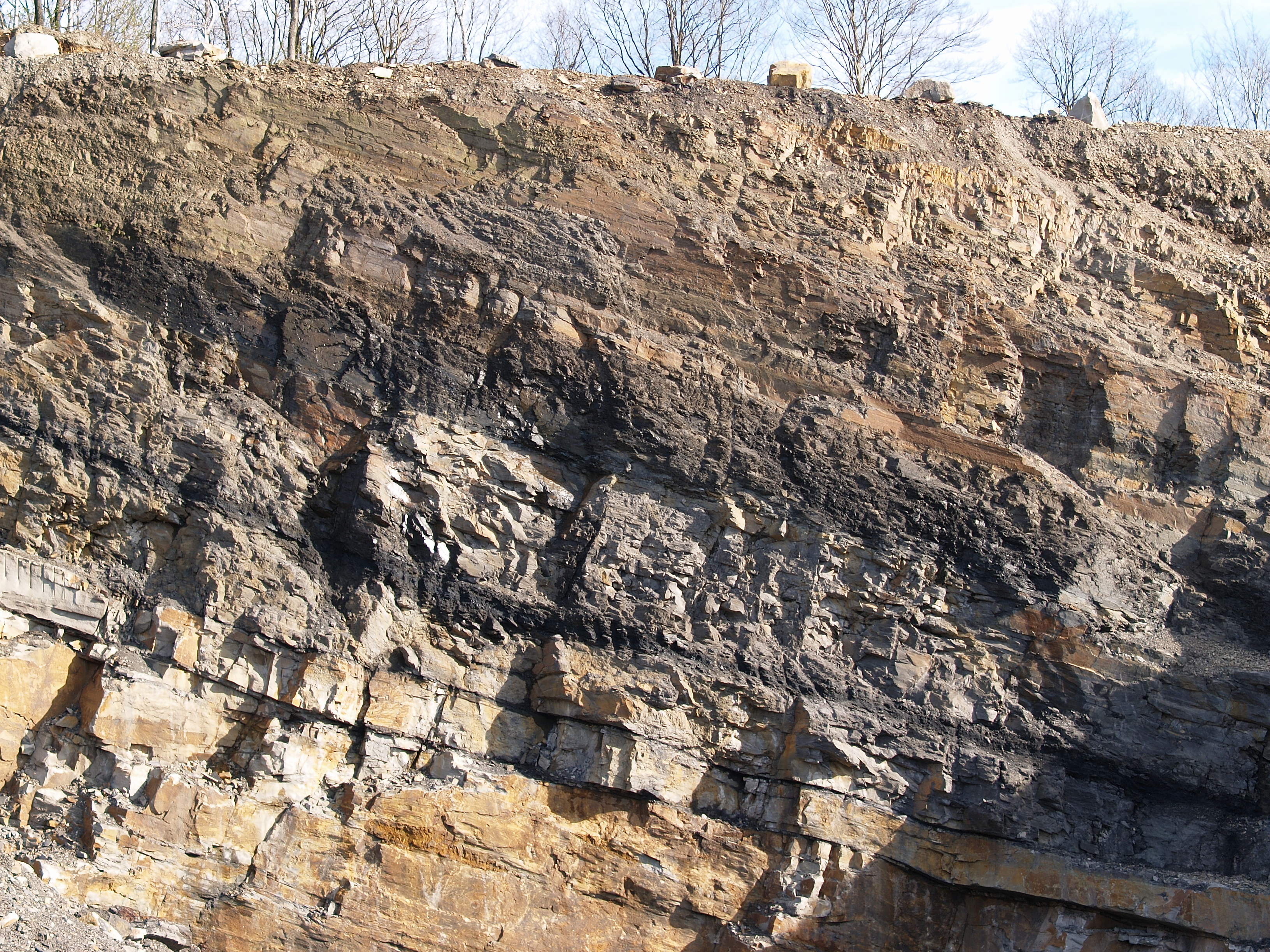 Thin coal seams intercalated with beds of the Namurian (Pennsylvanian) “Ruhrsandstein”. Quarry near the town of Wetter (Ruhr), North Rhine-Westphalia, Germany